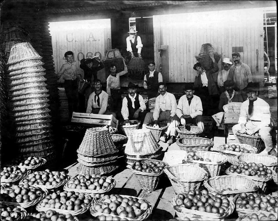 Fruit market of Tigre, Buenos Aires Province (Argentina).